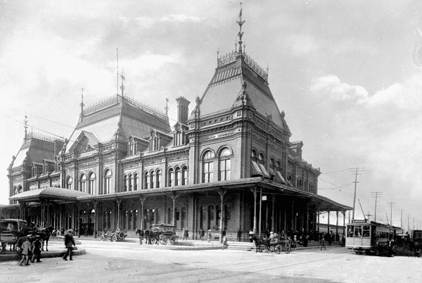 Bonaventure Station, Grand Trunk Railway, Montreal, Quebec, Canada. Built in 1847, destroyed by fire in 1916.